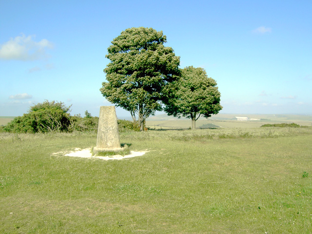 Summit of Cissbury Ring, near Findon